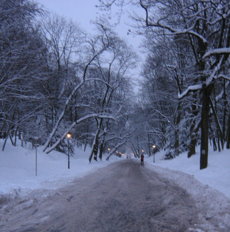 Agrykola Street. Warsaw. Gas lanterns. Snow.